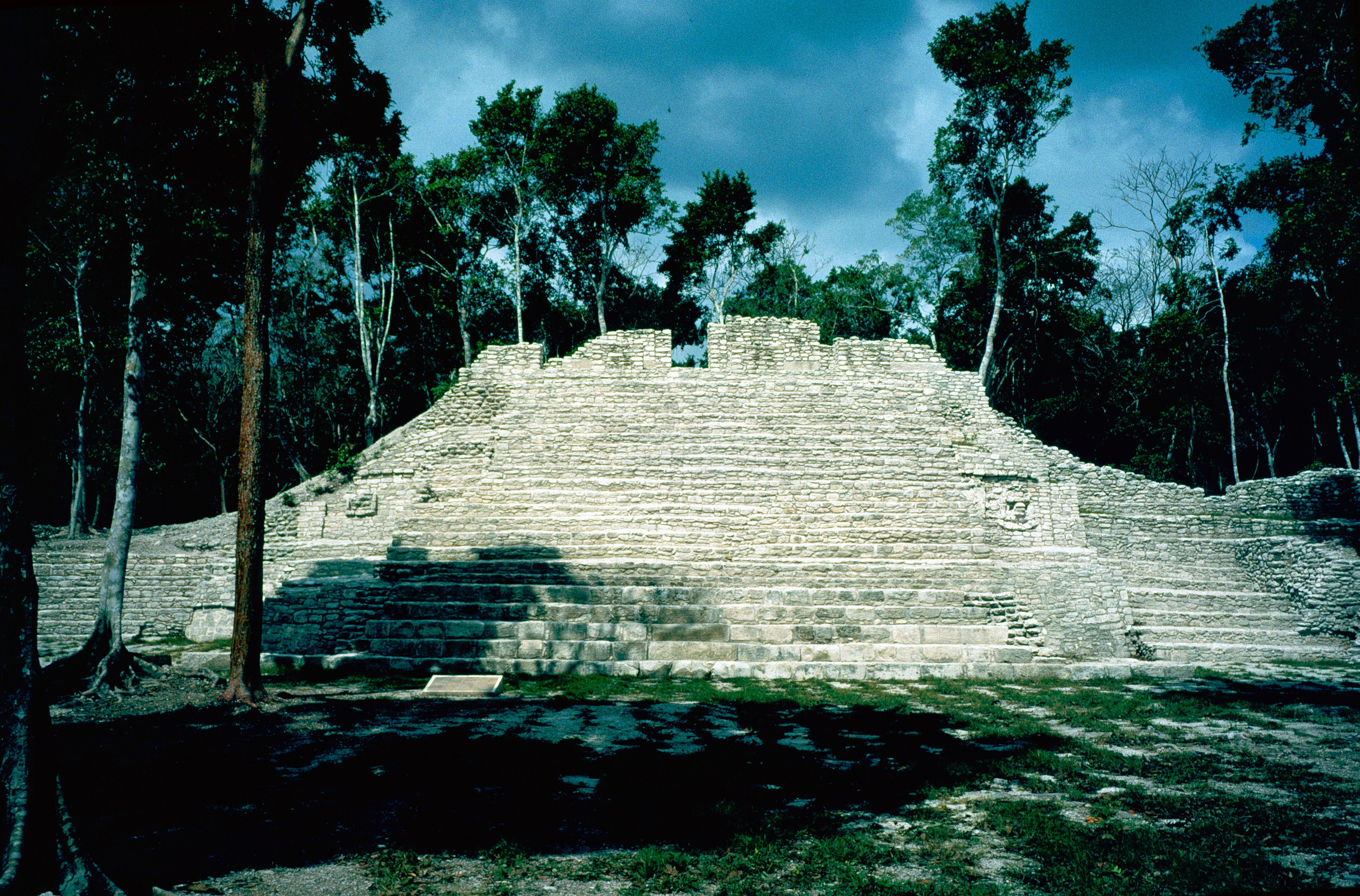 Dzibanche, Quintana Roo, Mexico: building of the captives